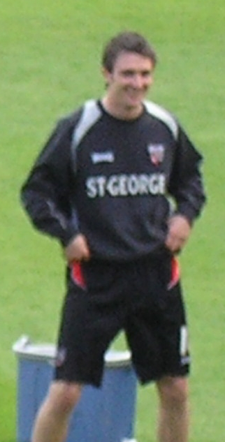 Brentford FC player Sam Tillen warming up.